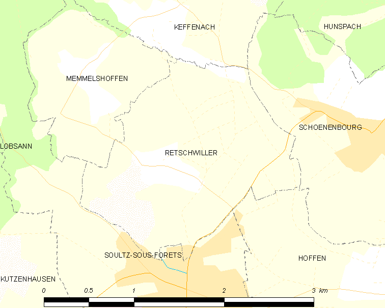 Map of French municipality